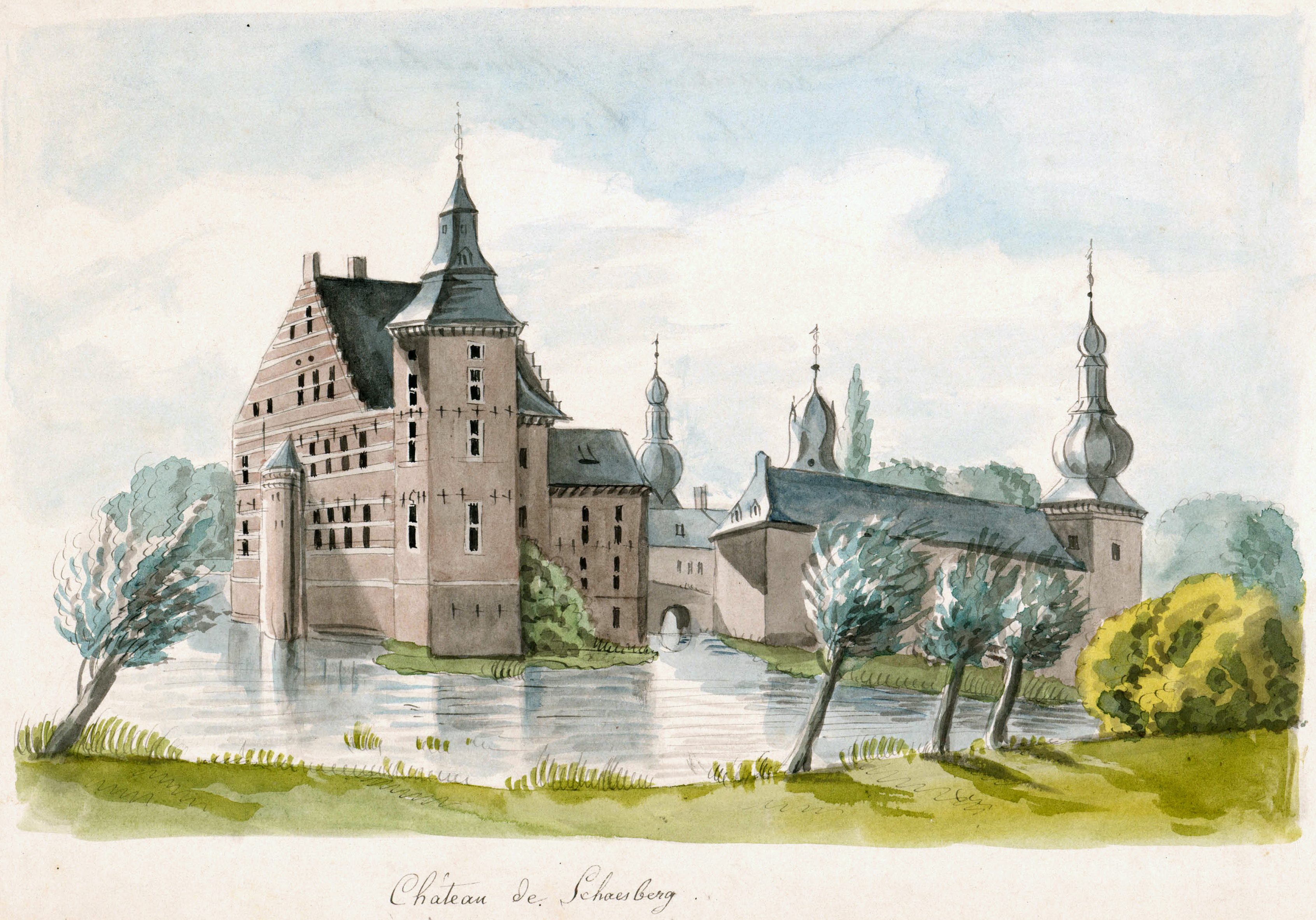 Ingekleurde tekening van Philippe van Gulpen van Kasteel Schaesberg bij Heerlen. Bijschrift: Château de Schaesberg. Collectie Van der Noordaa in het RHCL, Maastricht, CVDN 249.